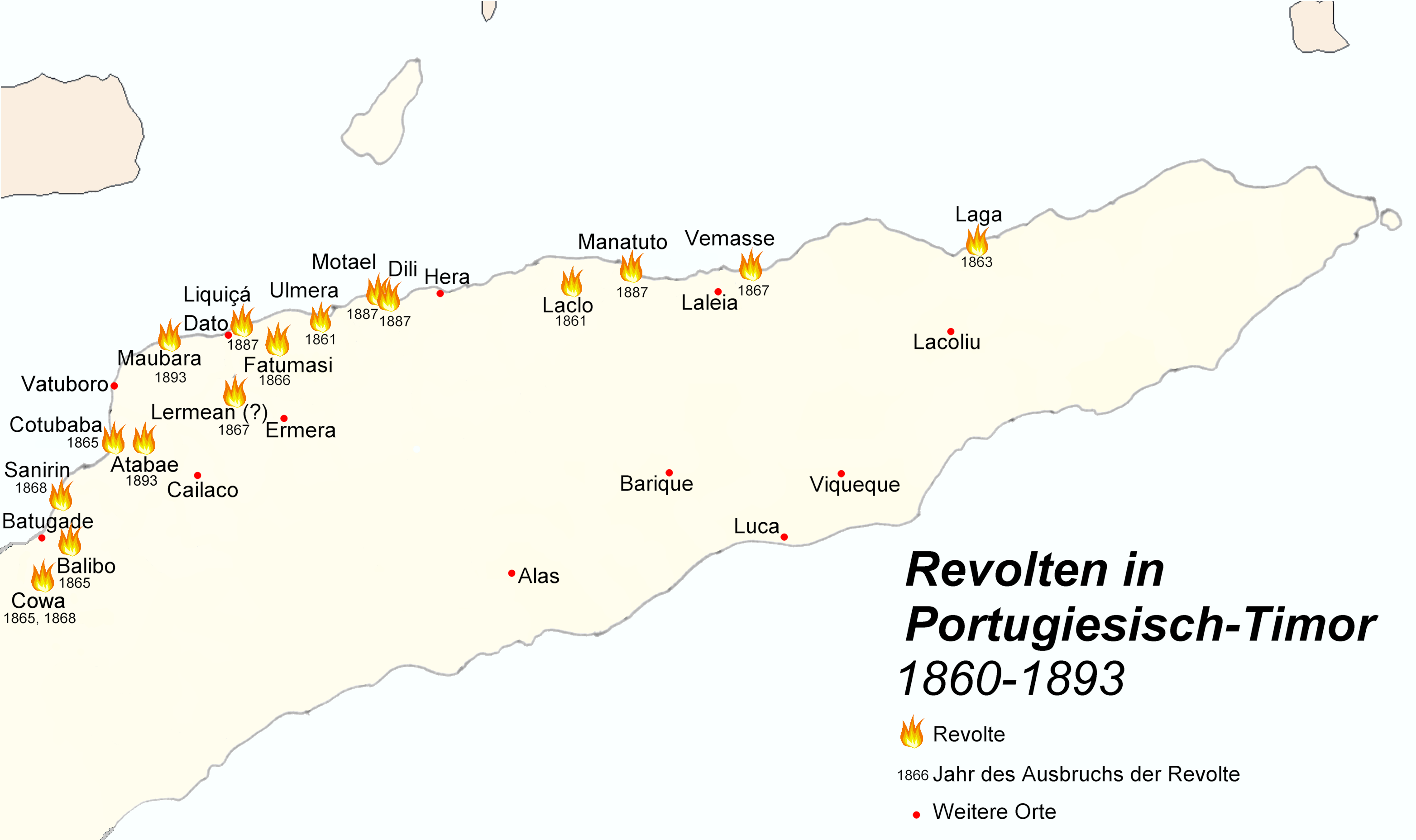 Revolutions against Portuguese in Timor between 1860 and 1893